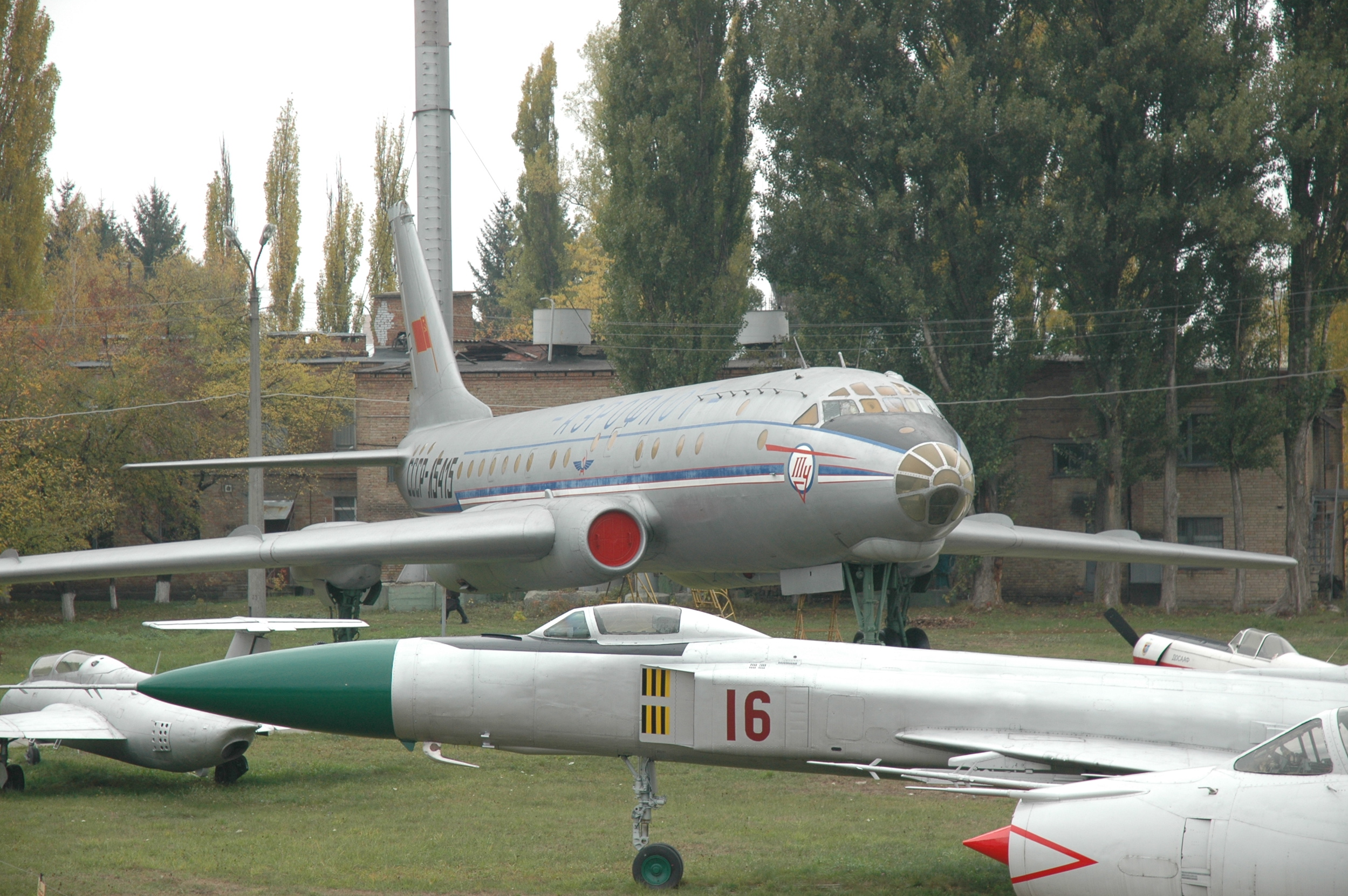 Ukrainian State Aviation Museum, Kyiv